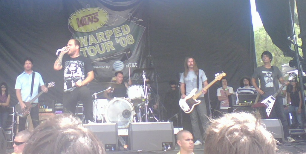 Rock band The Bronx peforming on the 2008 Warped Tour in Chula Vista, California.